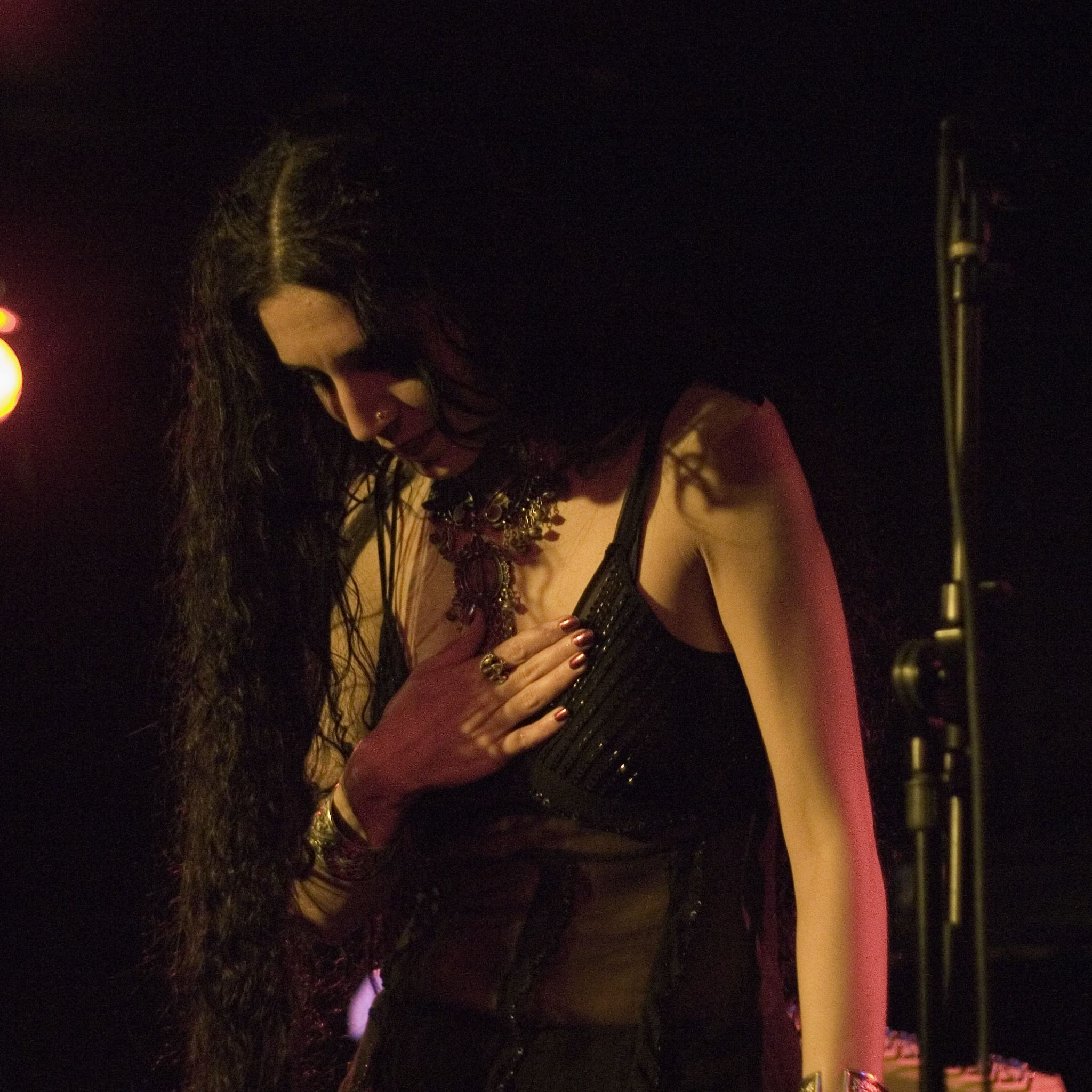 Azam Ali, performing with Niyaz at Cafe du Nord, San Francisco the night of March 11th, 2007.